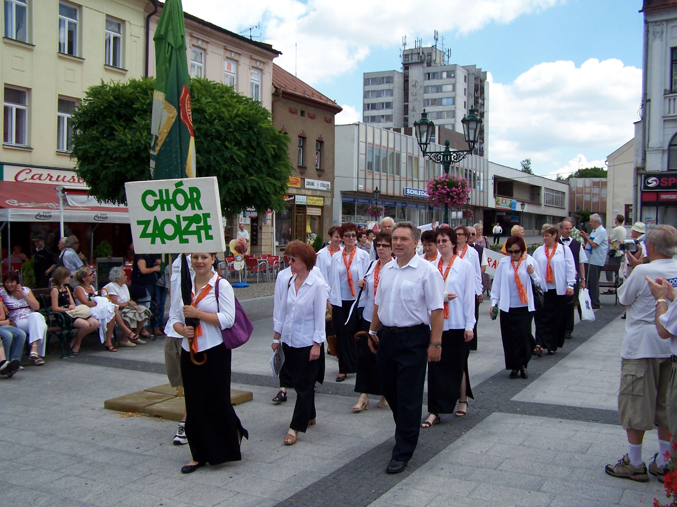 Zaolzie choir during the parade at the beginning of the Jubileuszowy Festiwal PZKO 2007 in Karwina